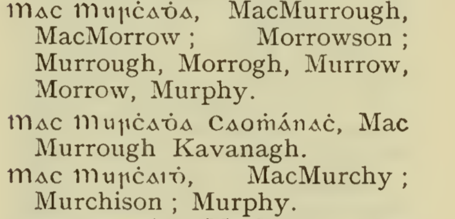 The origins of the Gaelic surnames Morrow and Murphy as given by Rev. Patrick Woulfe.